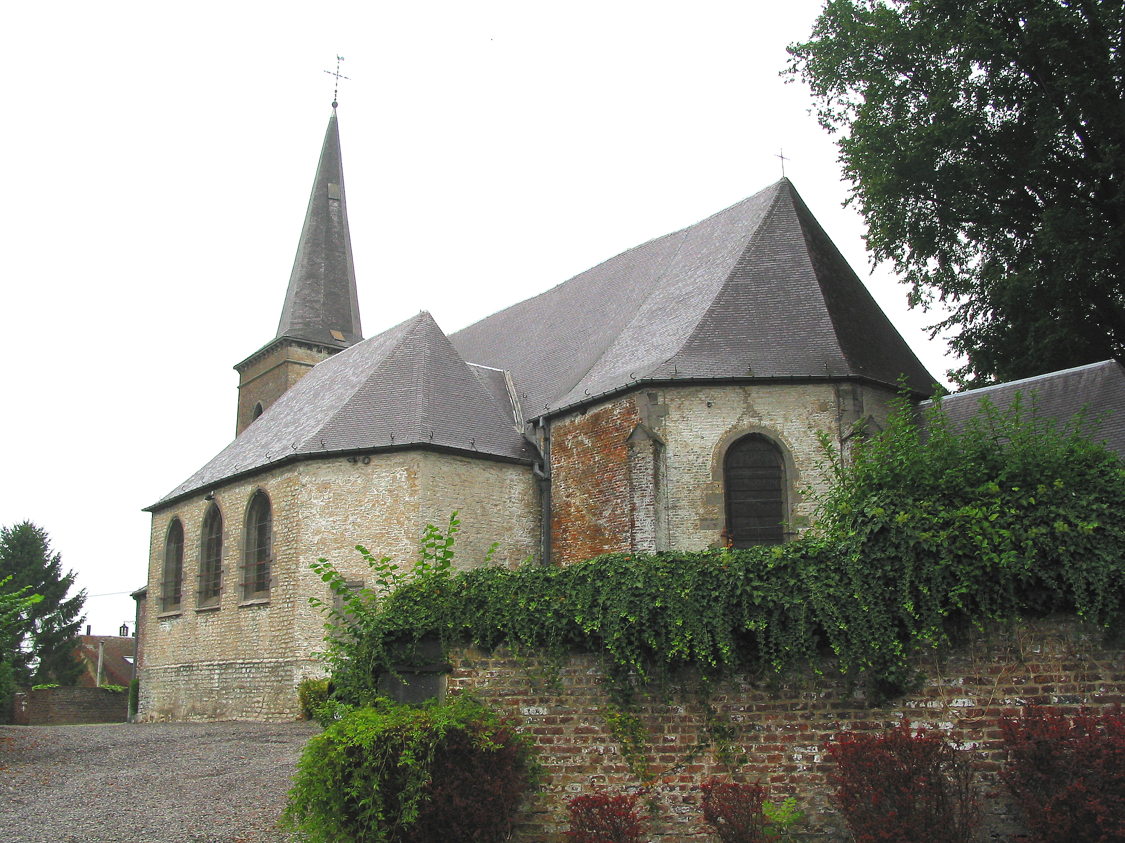 Trazegnies (Belgium), the St. Martin church (XVIth century).